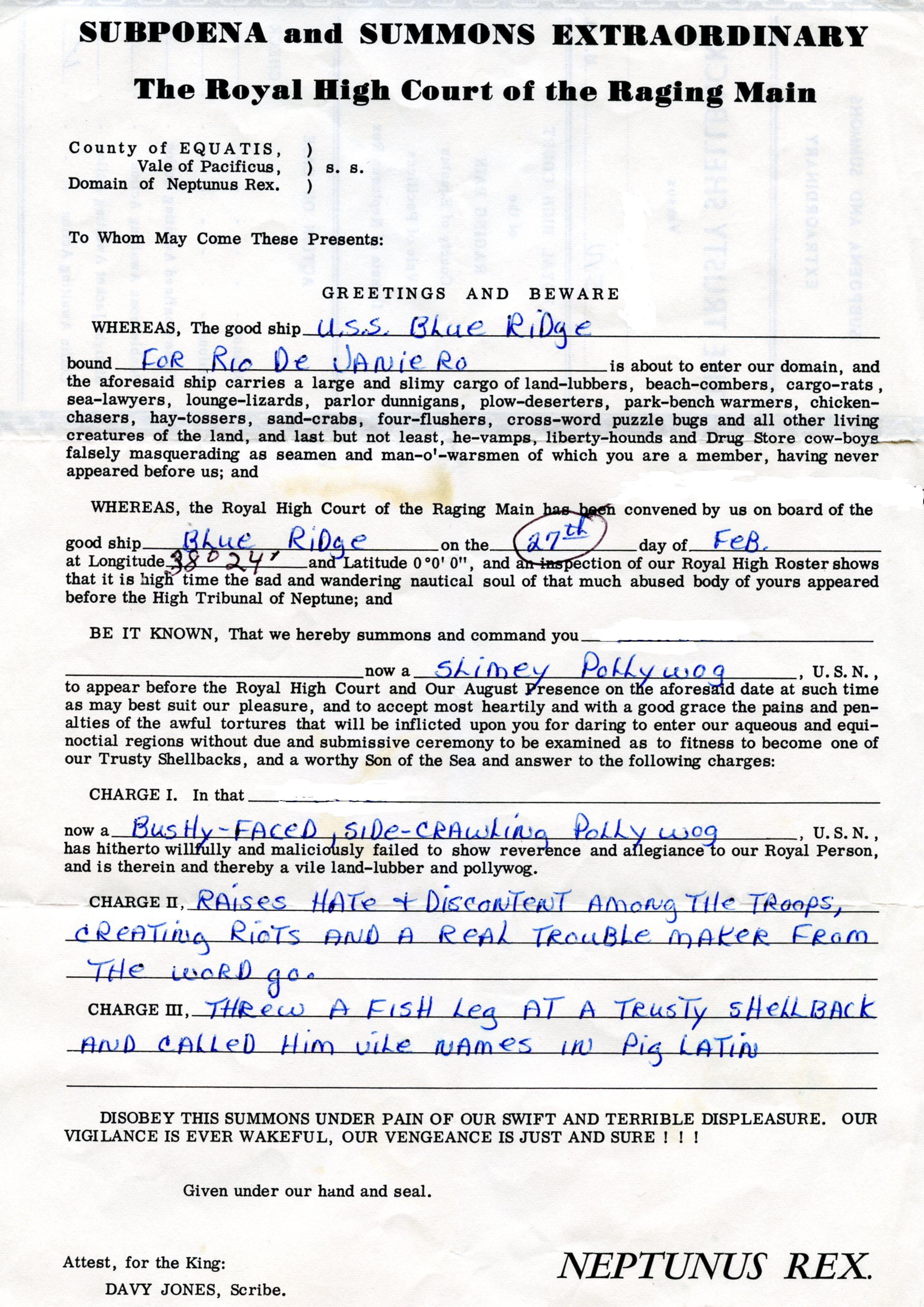 My summons to the Royal Court of the Ragging Main.